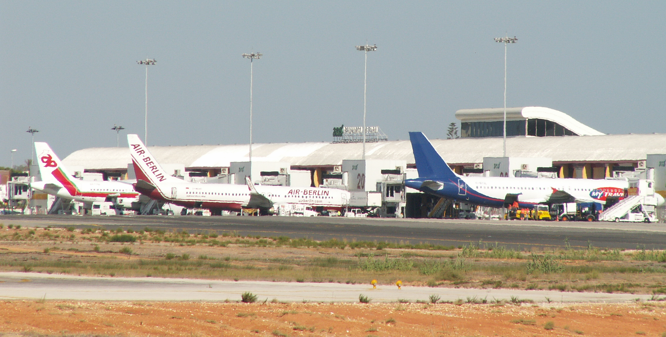 Faro International Airport Valter Jacinto